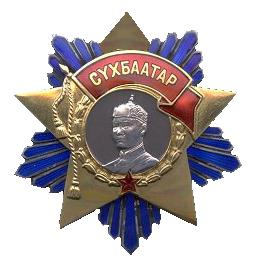 Sükhbaatar medal, private collection Groningen